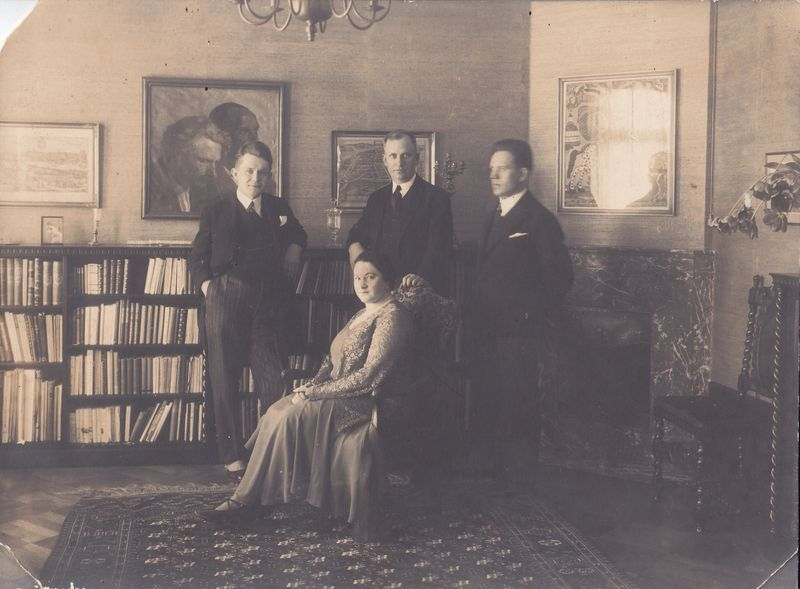 Valentinas Gustainis (left) visits Jurgis Savickis (middle) in Stockholm. Antanas Rūkštelė stands on the right. Savickas' wife Ida Trakiner sits in front.